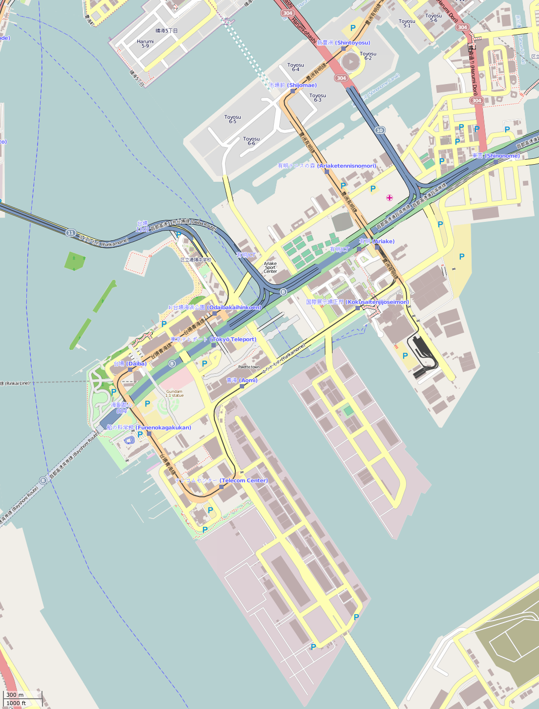 Odaiba (left) and Ariake (right) islands in Tokyo harbour. Both these islands are often meant when talking about "Odaiba". This map may be incomplete, and may contain errors. Don't rely solely on it for navigation.